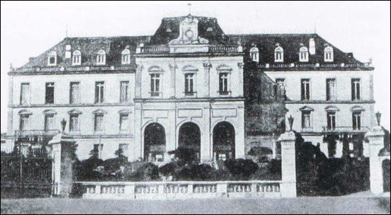 Imperial Japanese Army General Staff HQ, Tokyo (1881-1923). The building was the Headquarters of the General Staff designed by the Italian foreign adviser Giovanni Vincenzo Cappelletti. Later the Chiefs of Staff moved to an adjacent building. It was the Front of Land Surveying Department. From the design of the facade, it is presumed that the building was repaired before the Meiji 27 Tokyo earthquake.